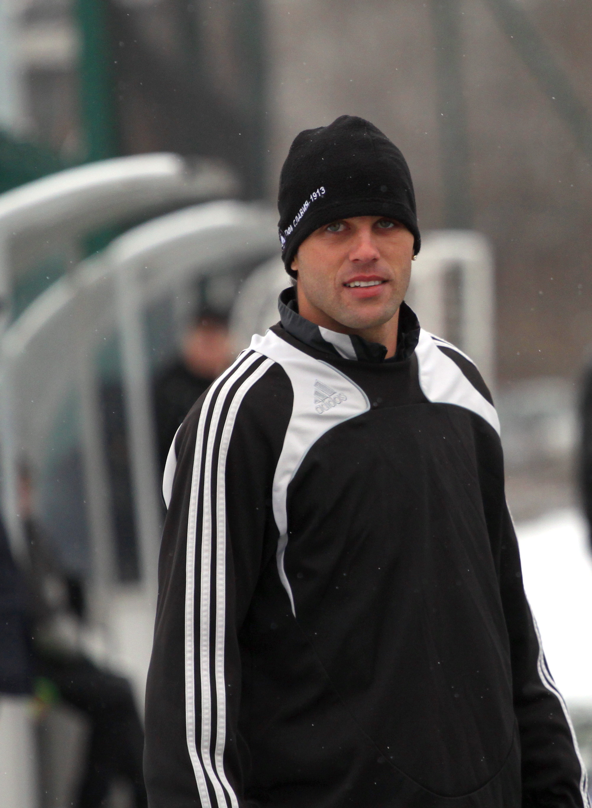 Jose Carlos Nogueira Junior or simply Jose Junior (born 18 July 1985) - Brazilian footballer, currently plays as a forward from Slavia Sofia.